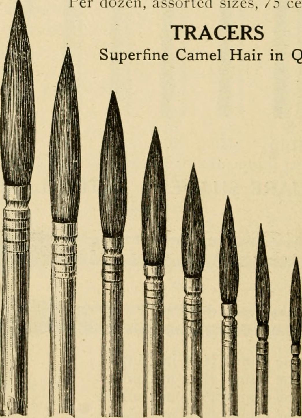 Image from page 87 of "Illustrated catalogue and price list of colors and materials for decorating china, earthenware, glass, enamelled iron, etc. : oxides and chemicals / imported and manufactured by B. F. Drakenfeld & Co." (1914)